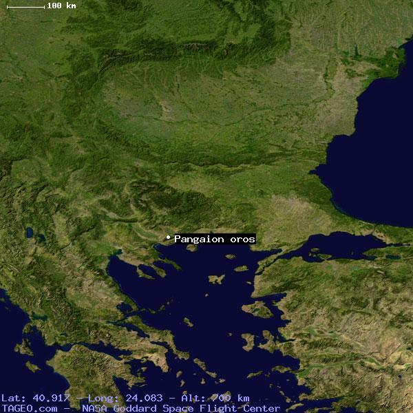 Pangaion mountain, Greece